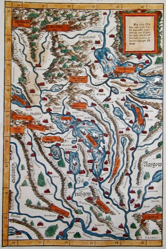 Scanned image of a woodblock impression by Stumpf. It is of the area around Zurich, Switzerland, circa 1547.